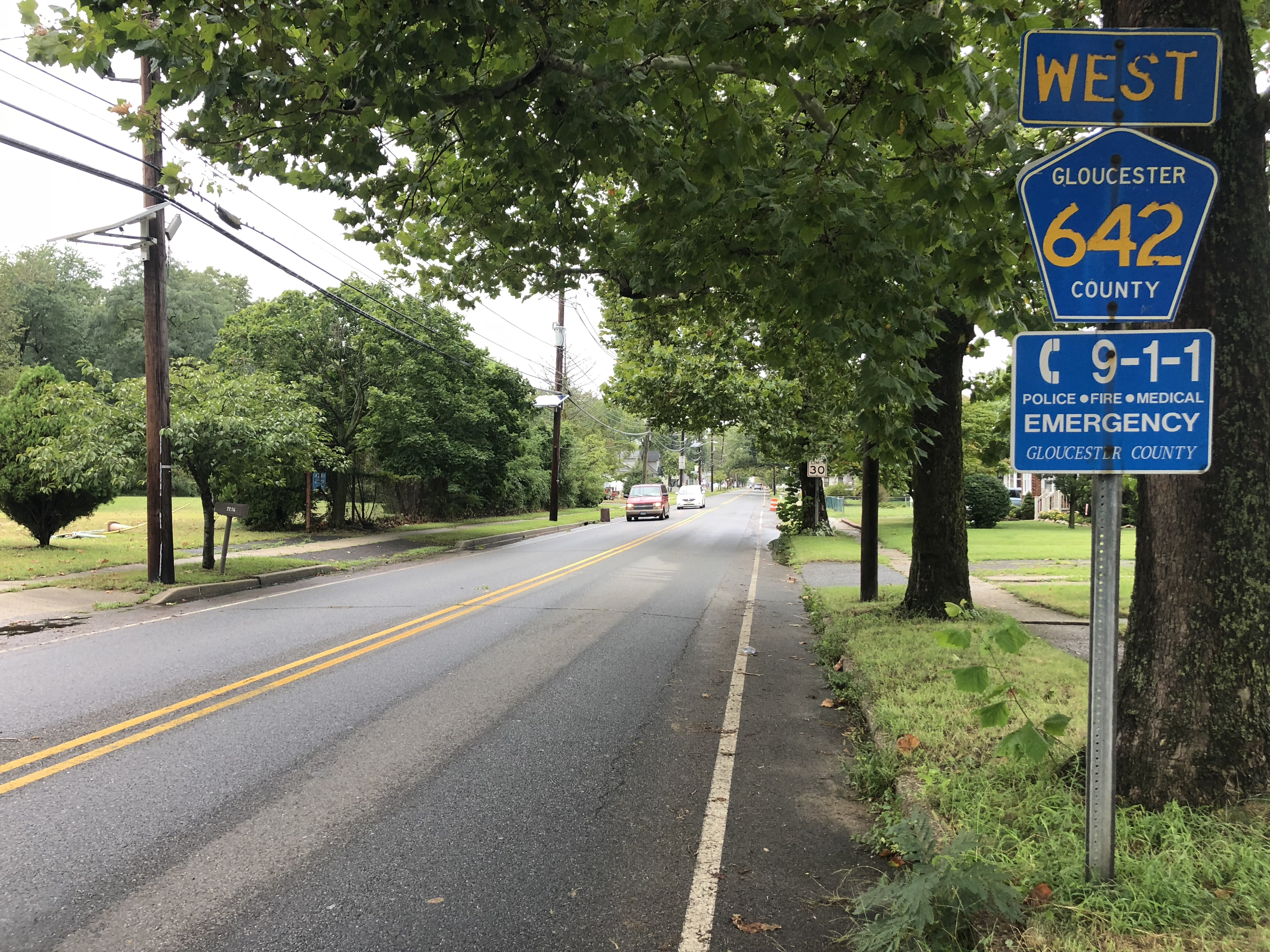 View west along Gloucester County Route 642 (Hessian Avenue) just west of Gloucester County Route 644 (Red Bank Avenue) in National Park, Gloucester County, New Jersey